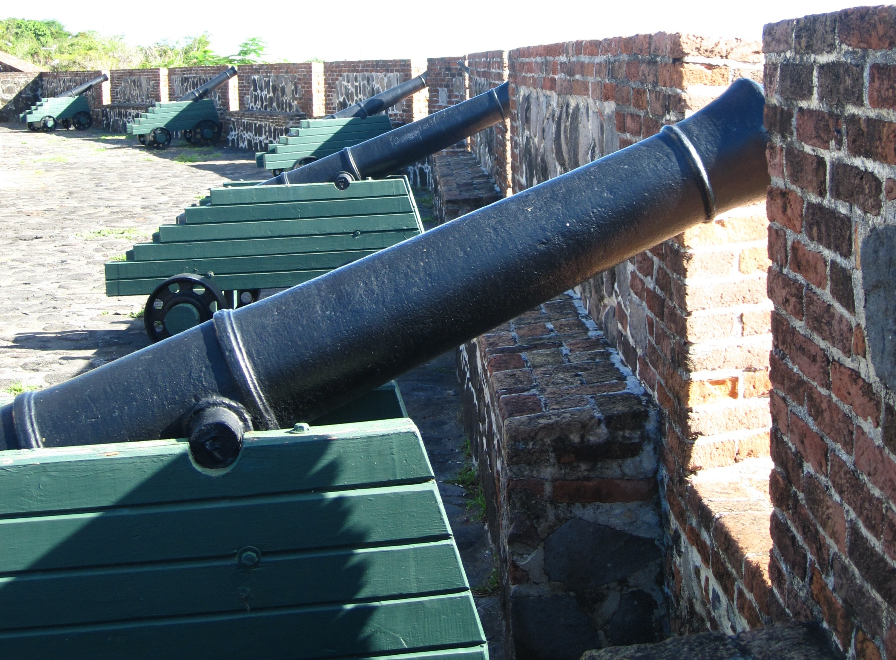 The cannons of Fort Oranje, Sint Eustatius (Netherlands Antilles) were the first to salute the flag of the independent US in 1776